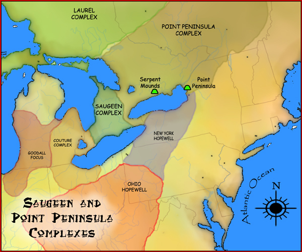 The Point Peninsula Complex) and Saugeen Complex were Native Americans from the Woodland period.